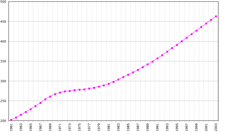 Cape Verde's population (1961-2003). Y-axis: Number of inhabitants in thousands